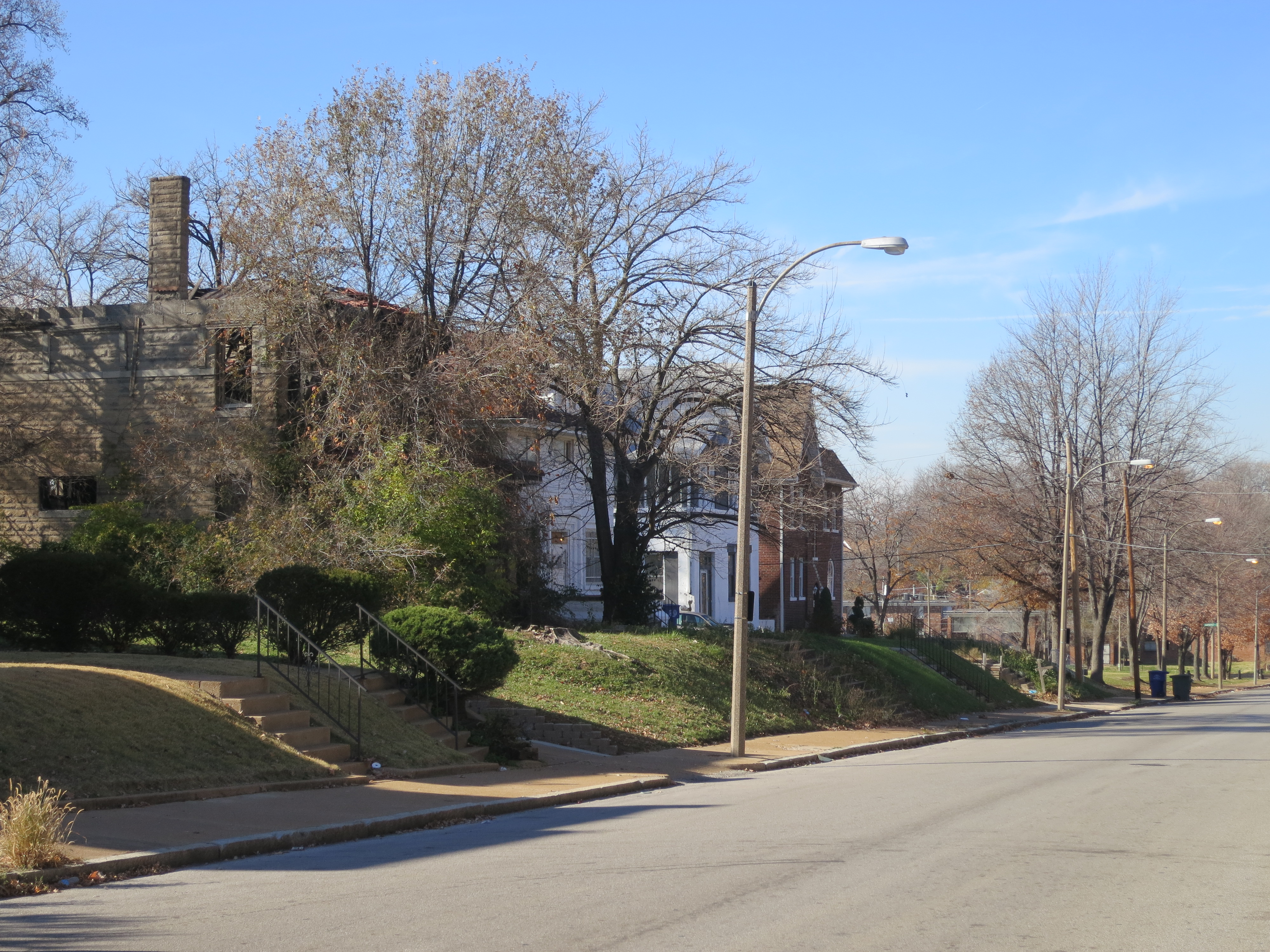 Concrete Block Historic District (19)